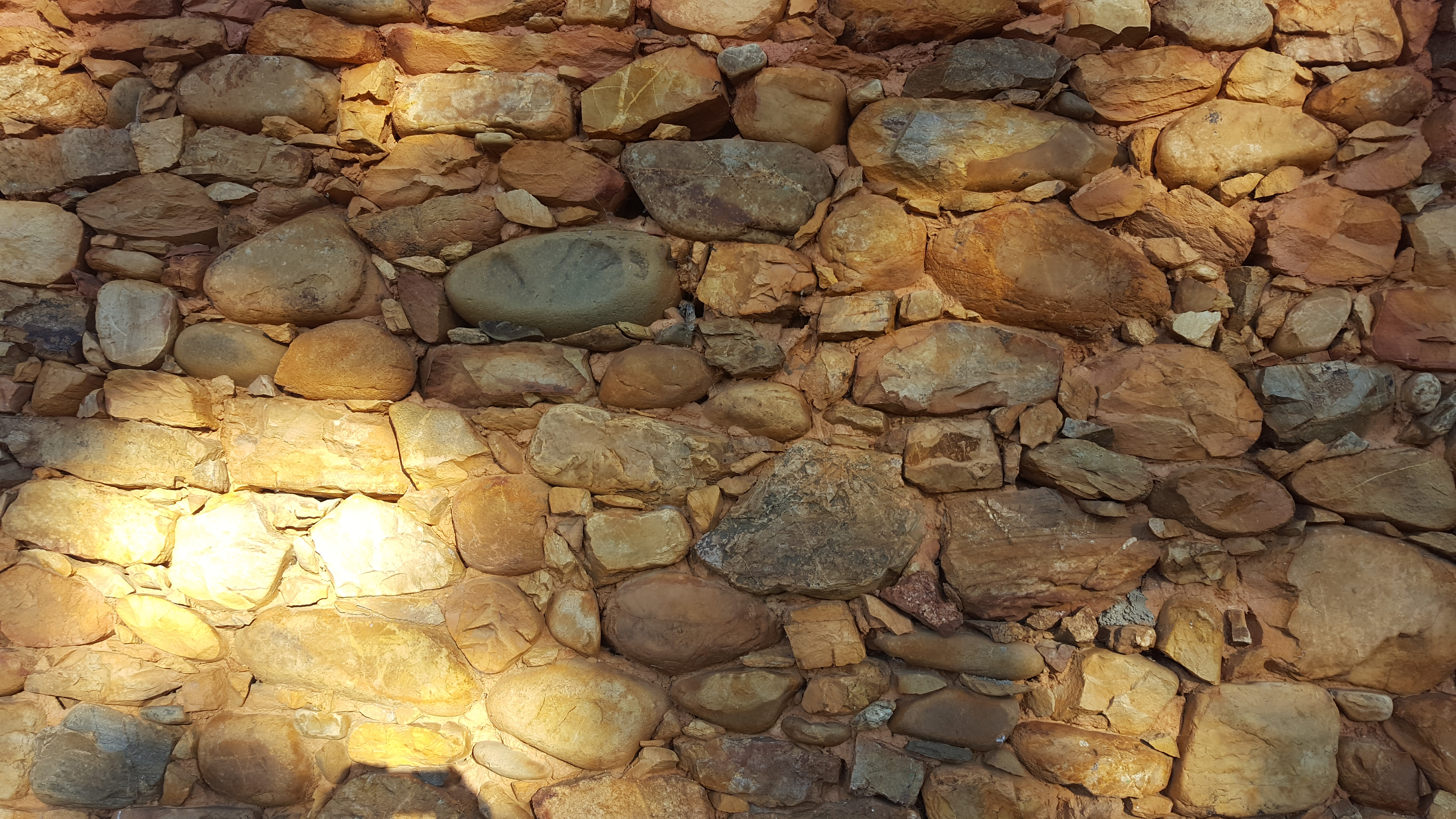 Traditional stone wall Castrocontrigo, León, Spain